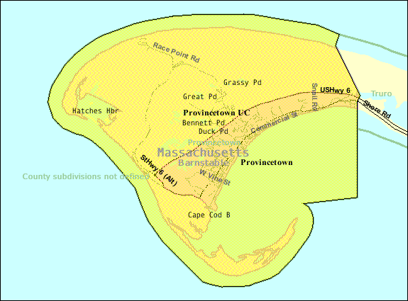 U.S. Census 2000 reference map for Provincetown